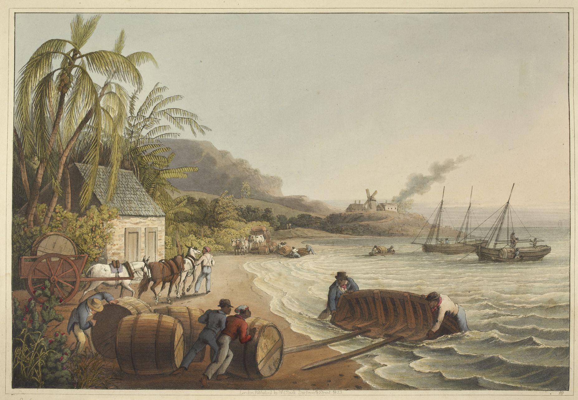 Sugar-Hogsheads Slaves loading barrels into a boat.